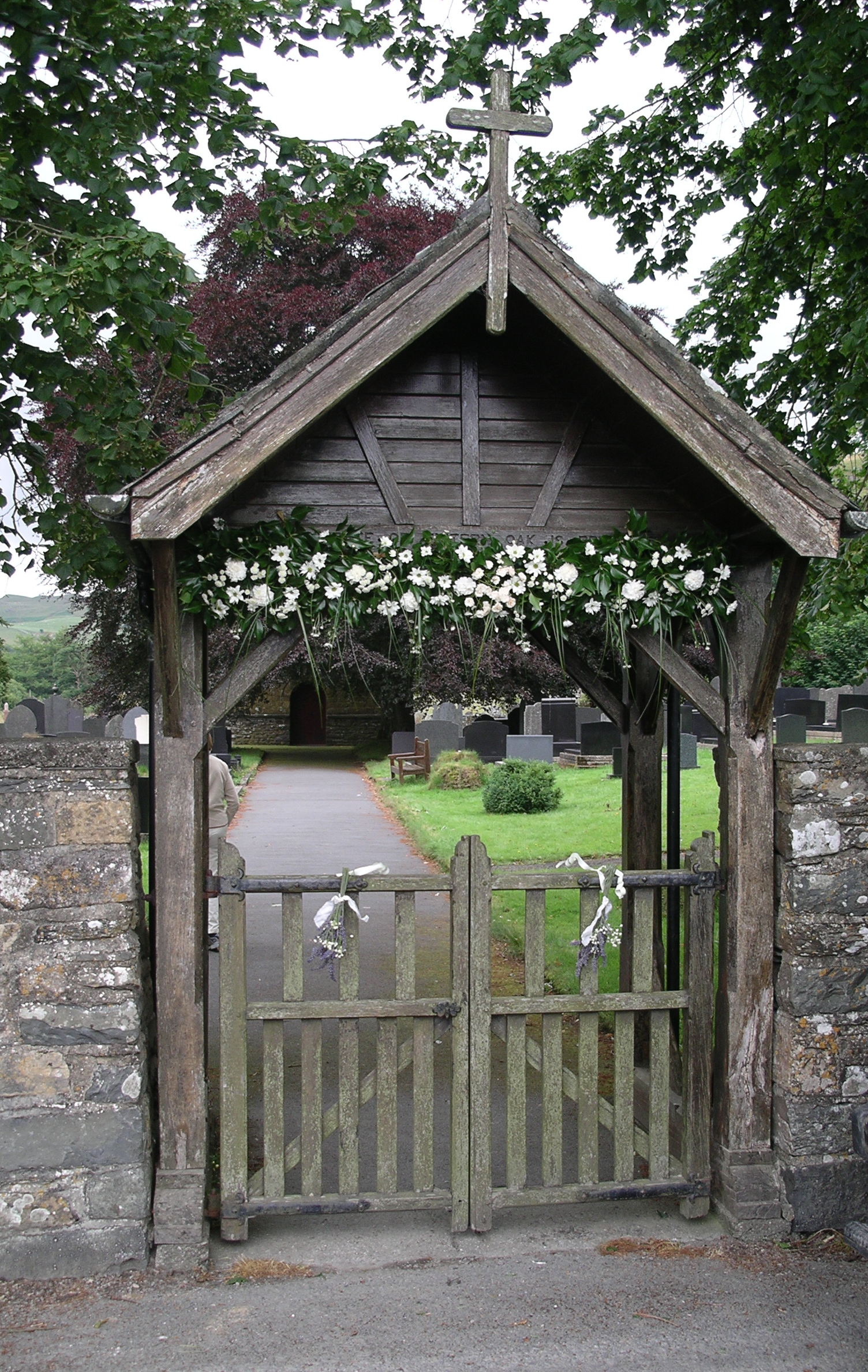 Lych Gate at Strata Florida Church, Ceredigion, Wales